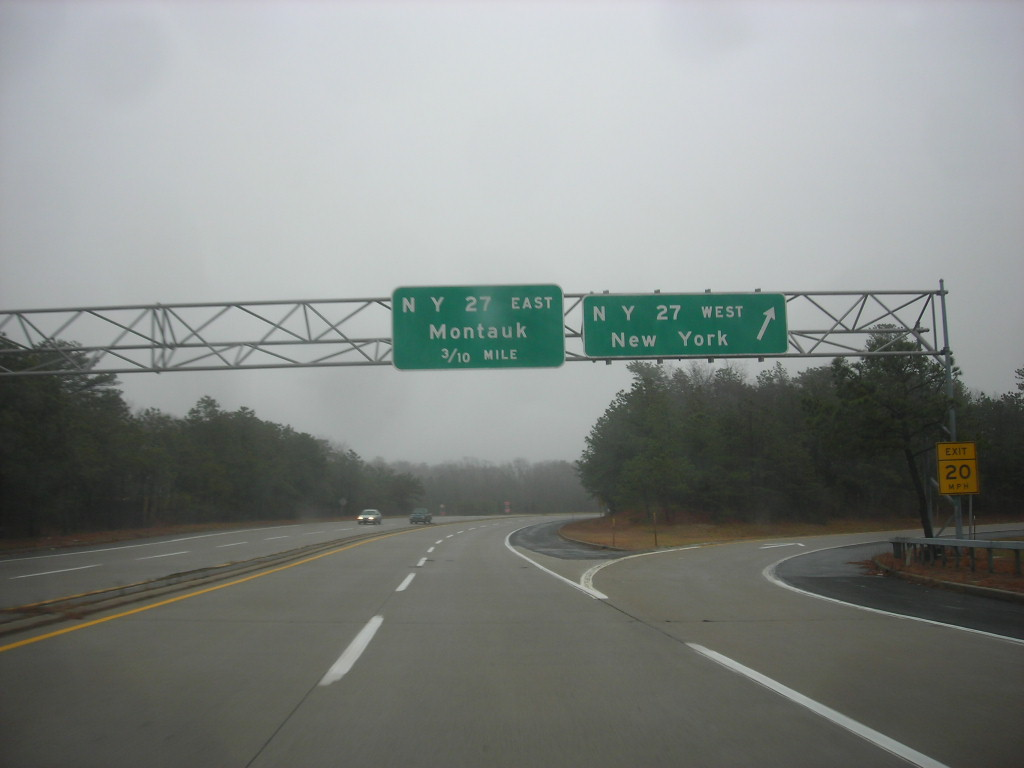 Suffolk County Route 104 northbound at New York State Route 27 in Southampton, New York.